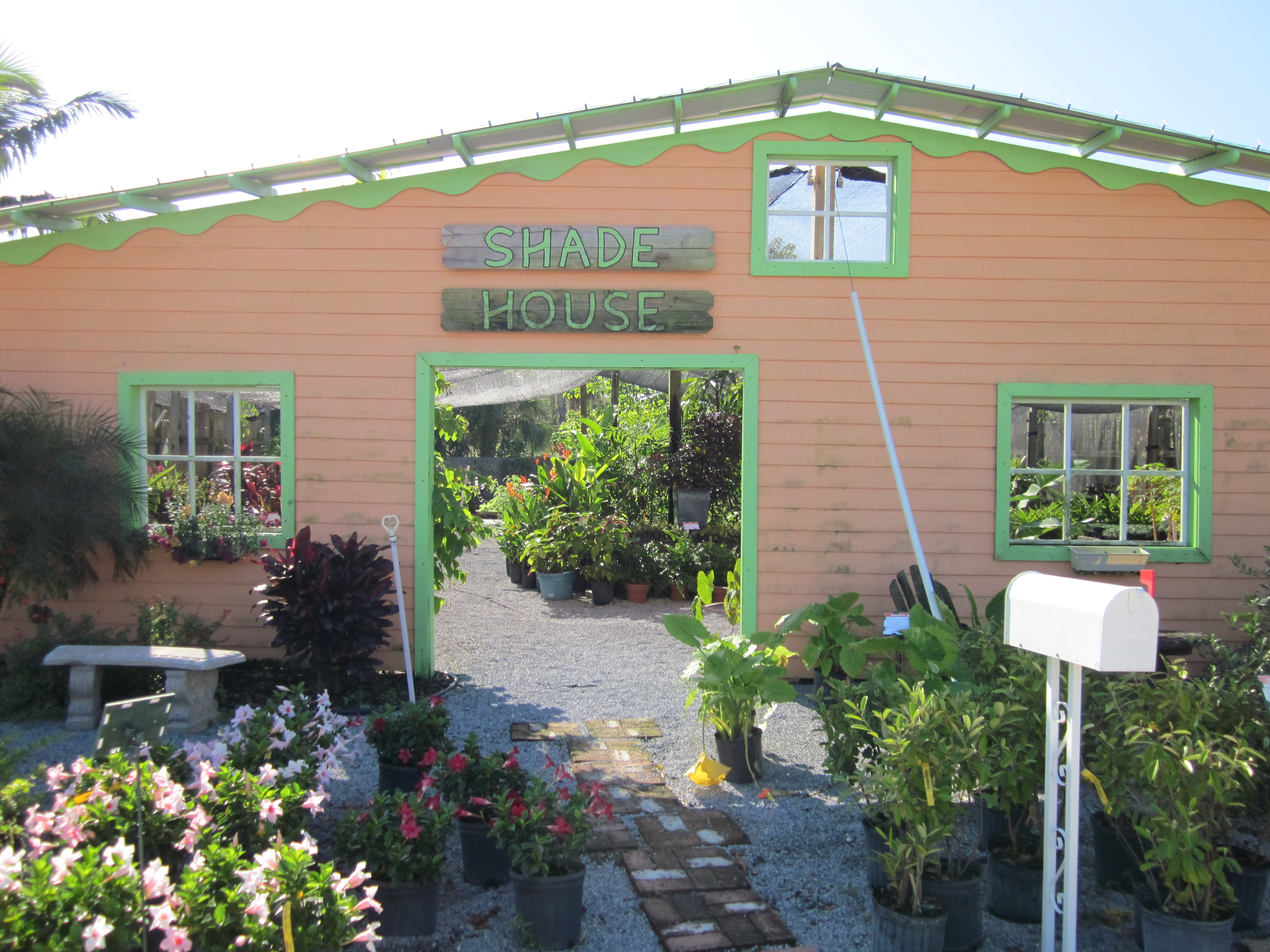 Shade House at Rockledge Gardens in Rockledge, FL